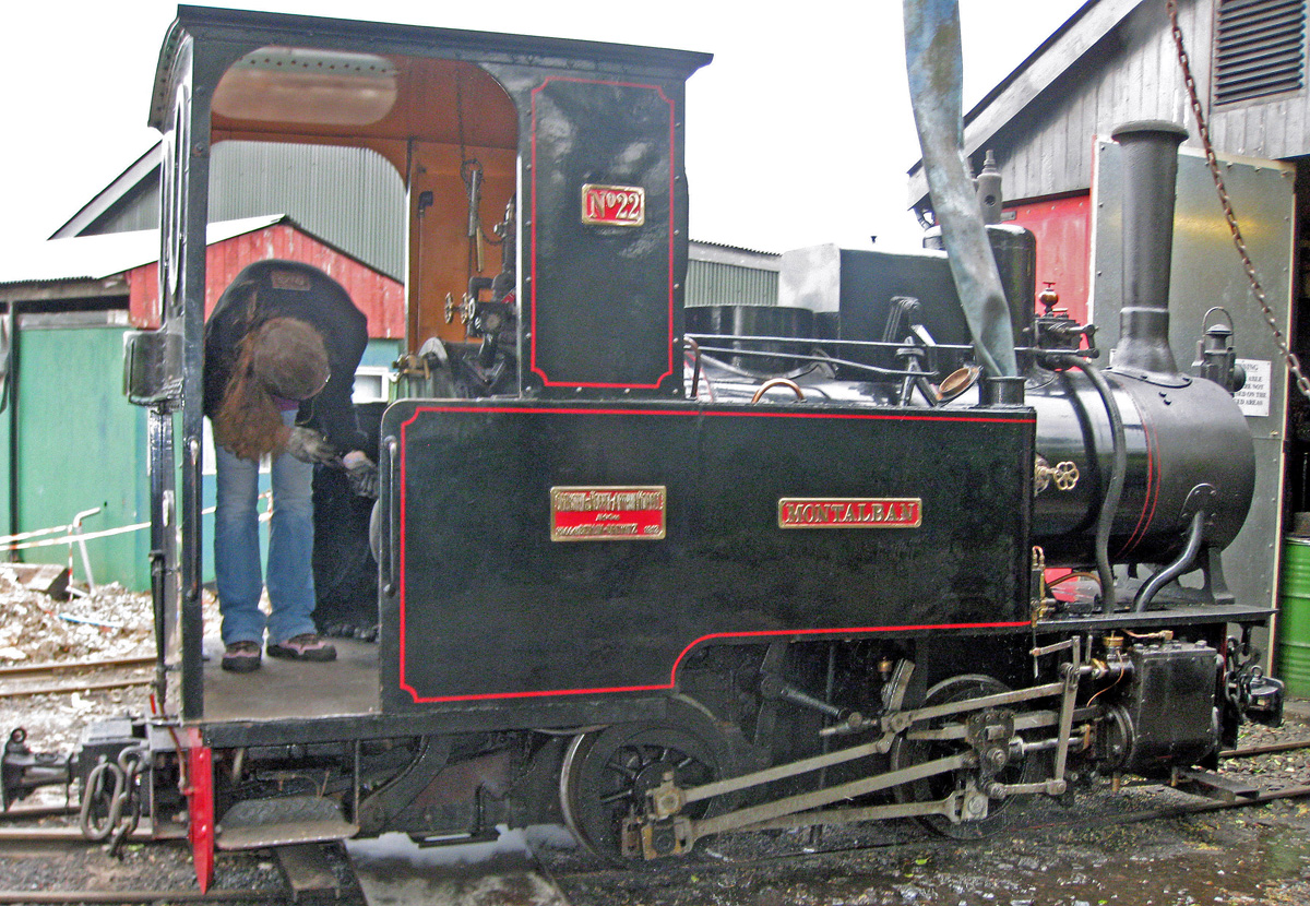 0-4-0 2 ft gauge steam locomotive built by Orenstein & Koppel in 1913 at the West Lancashire Light Railway near Preston, Lancs, England